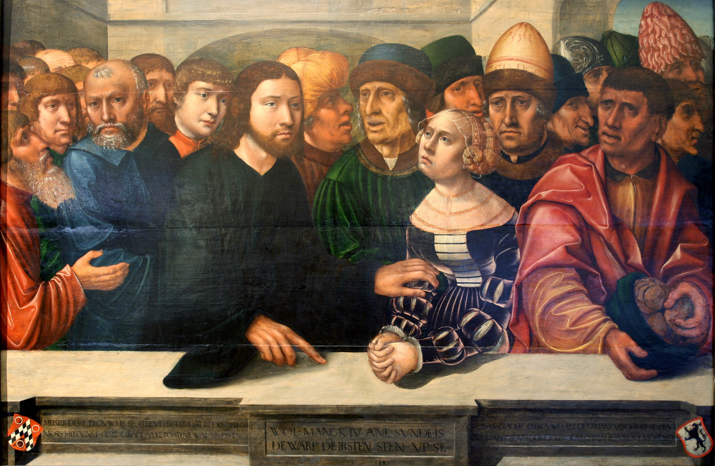 Hans Kemmer: Christus und die Ehebrecherin. 1530